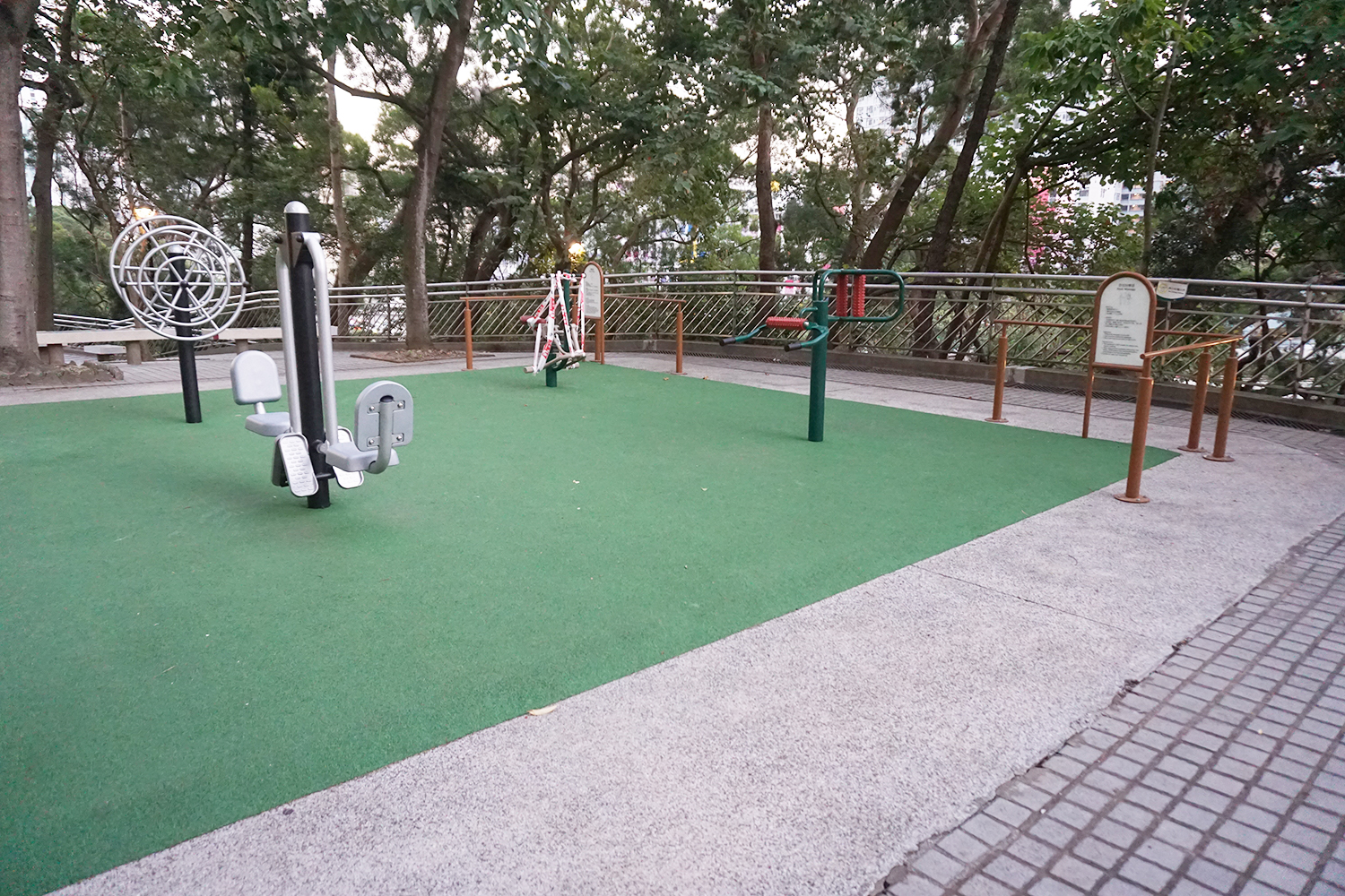 Tin Ma Court in Chuk Yuen, Hong Kong.